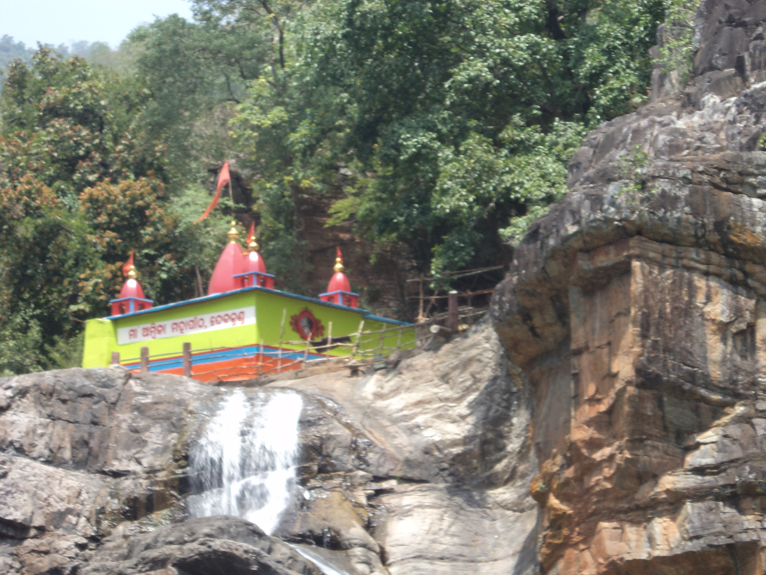 The water fall of Devkund